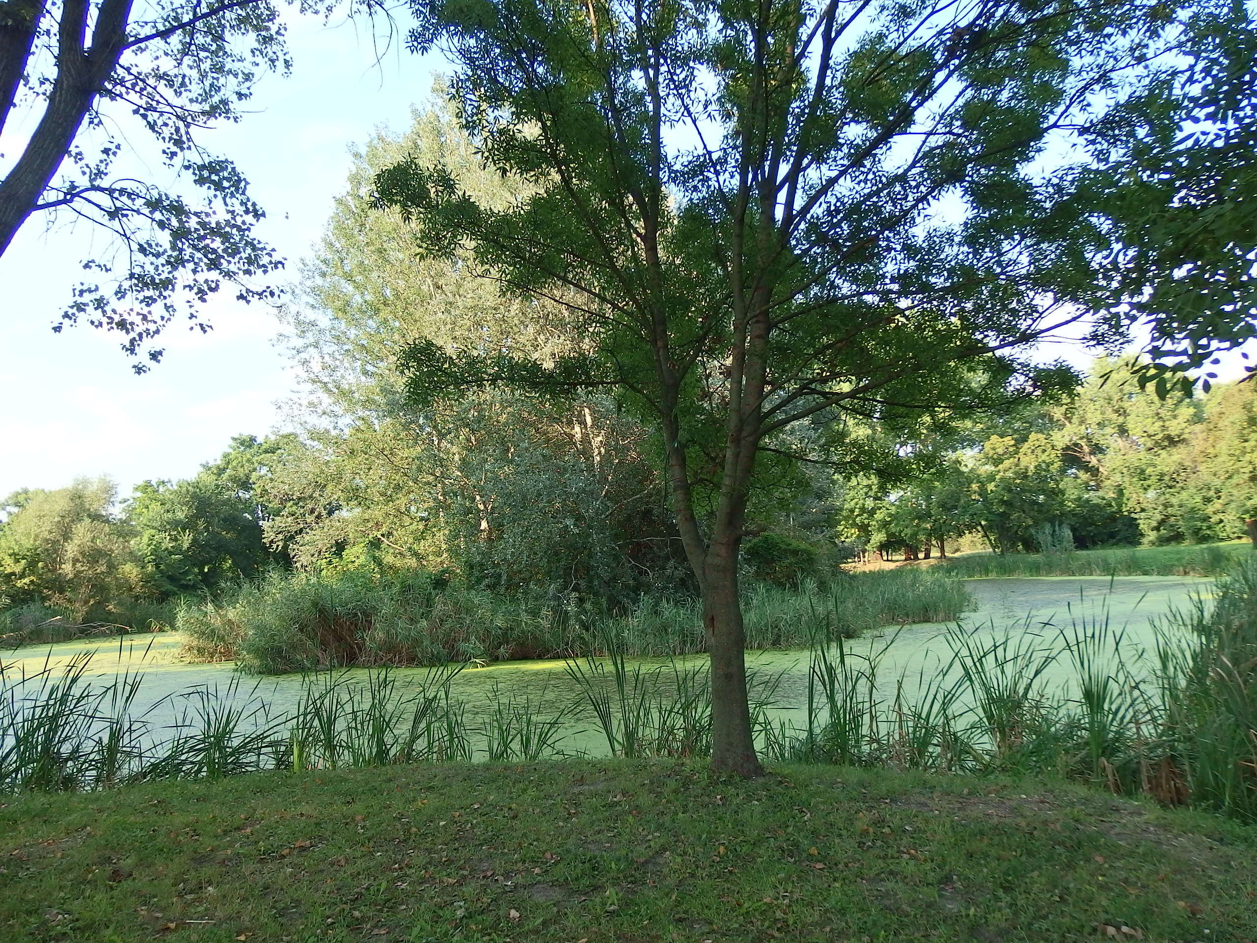 The Gerje Creek in Hungary